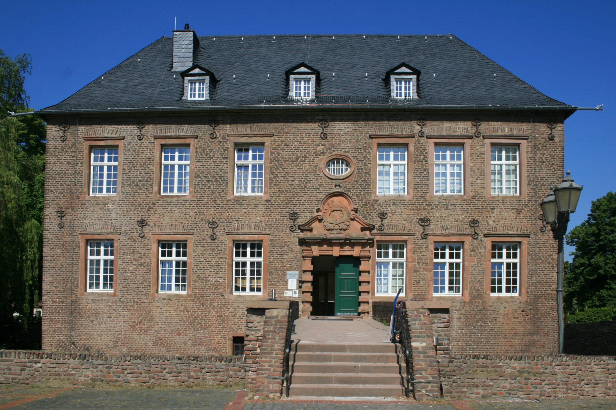 Cultural heritage monument No. 13 in Niederzier